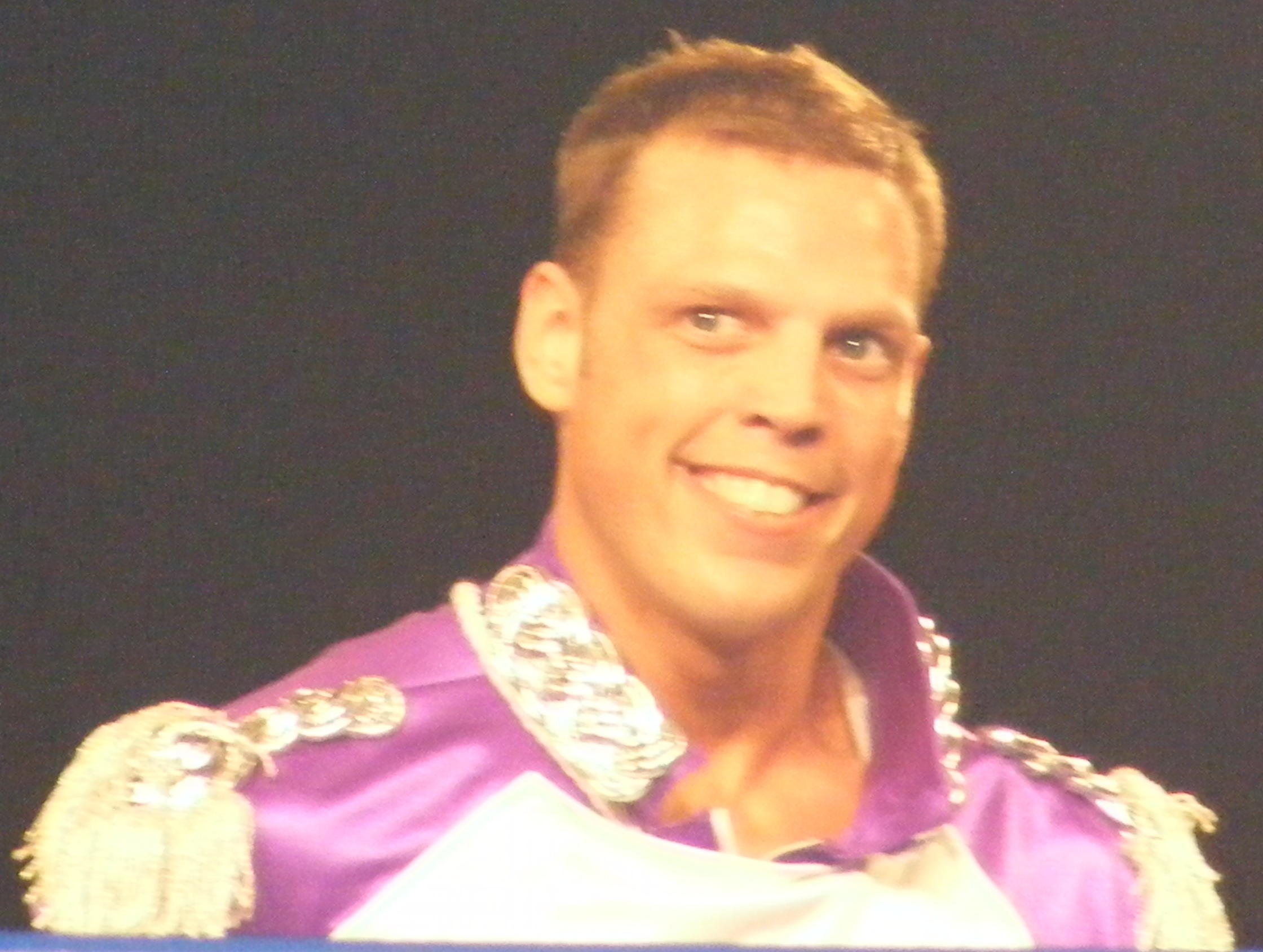 Professional wrestler Archibald Peck at Chikara King of Trios 2011.